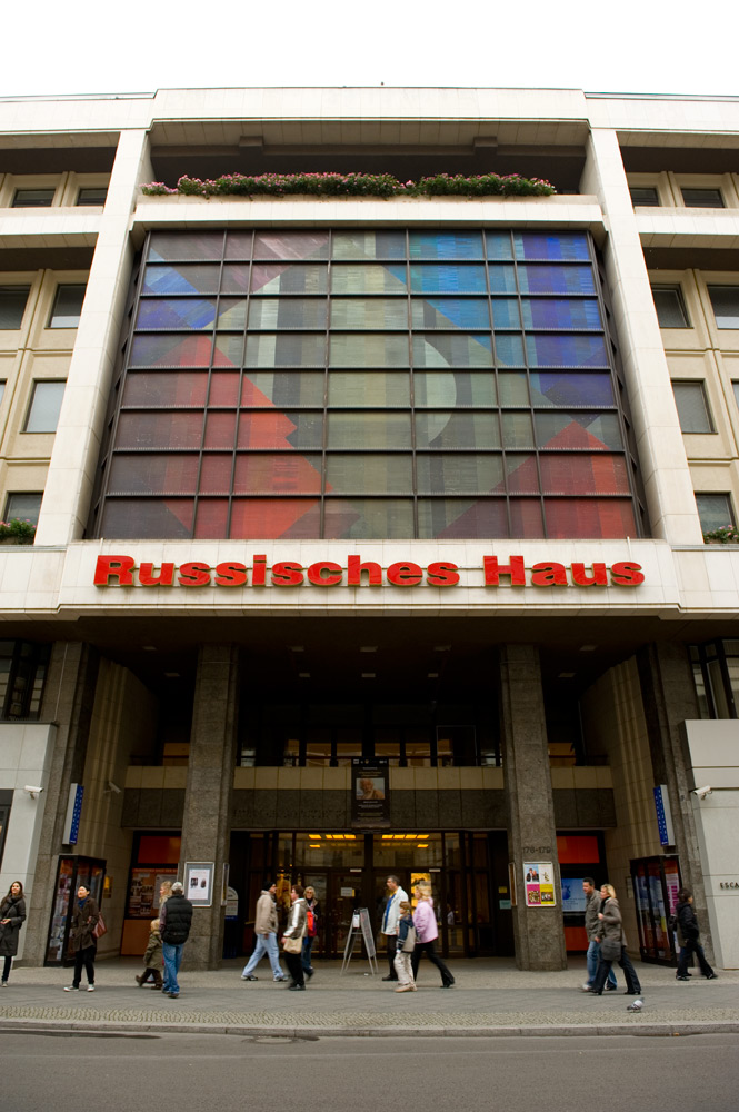 Russian Centre of Science and Culture in Berlin, Friedrichstraße 176-179, 10117 Berlin